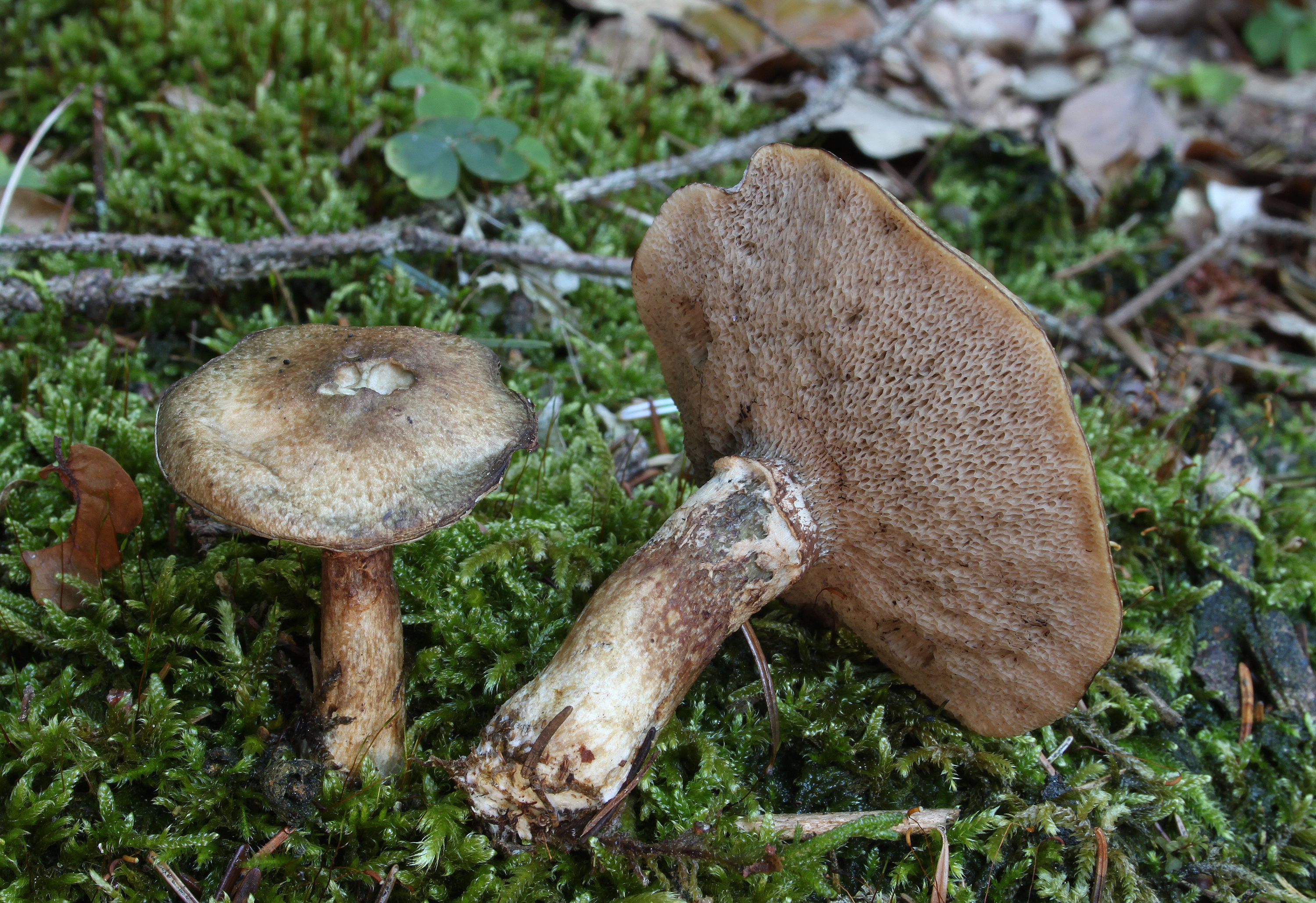 Sticky Bolete, Suillus viscidus, Family: Suillaceae, Location: Germany, Erbach, Ringingen